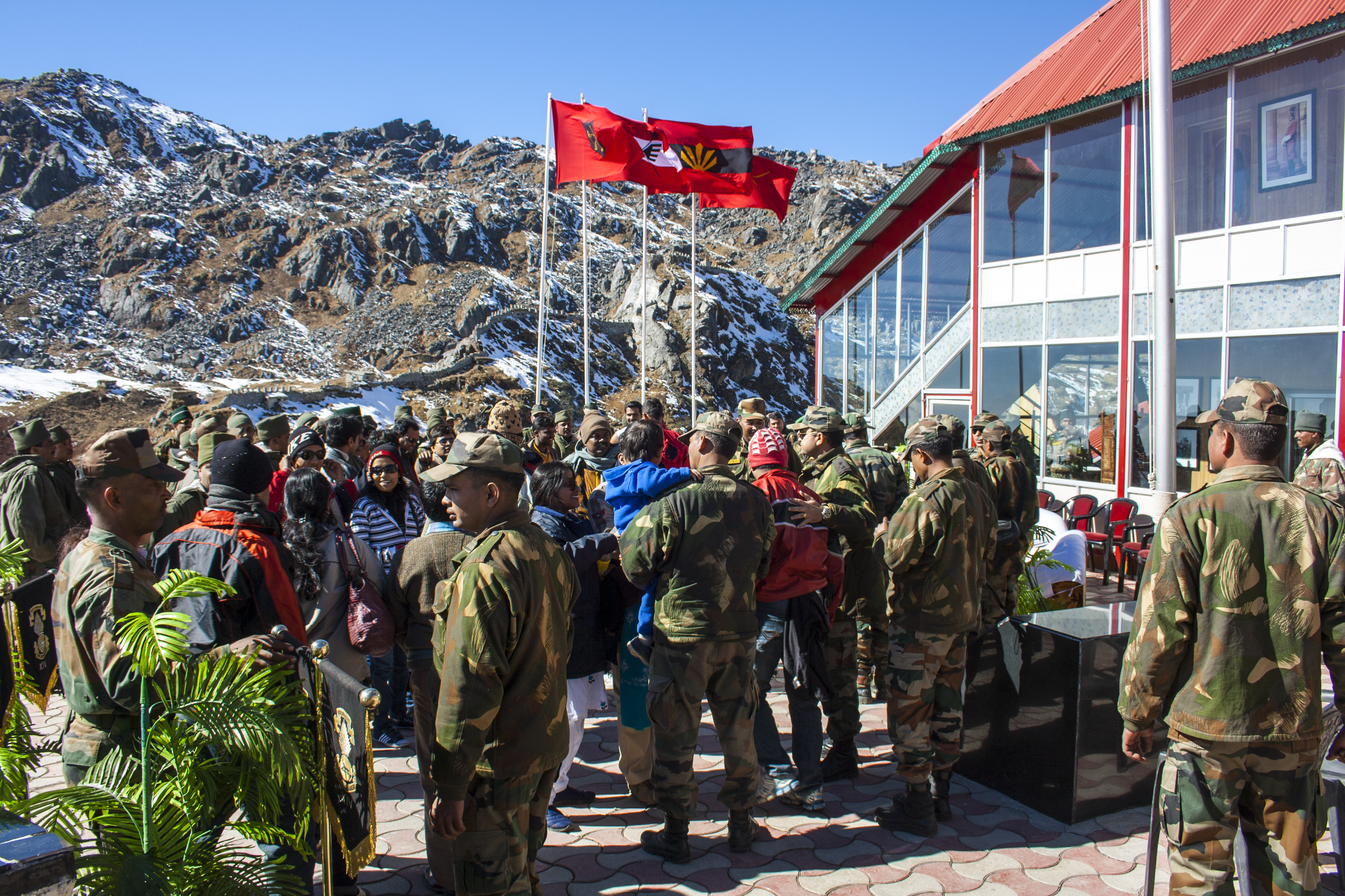 During my visit to Nathu La Pass I encountered a astonishing situation when all of a sudden Indian Army started dancing with civilian along with their Music Band. Photograph has been taken during my visit to Nathu La Pass , Sikkim.